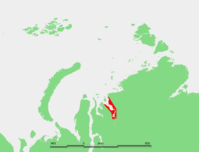 Nordensjelda Islands